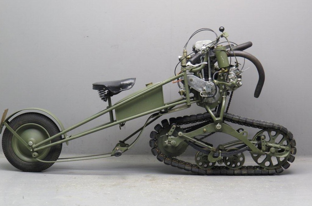 1937 Mercier Moto Chenille military prototype